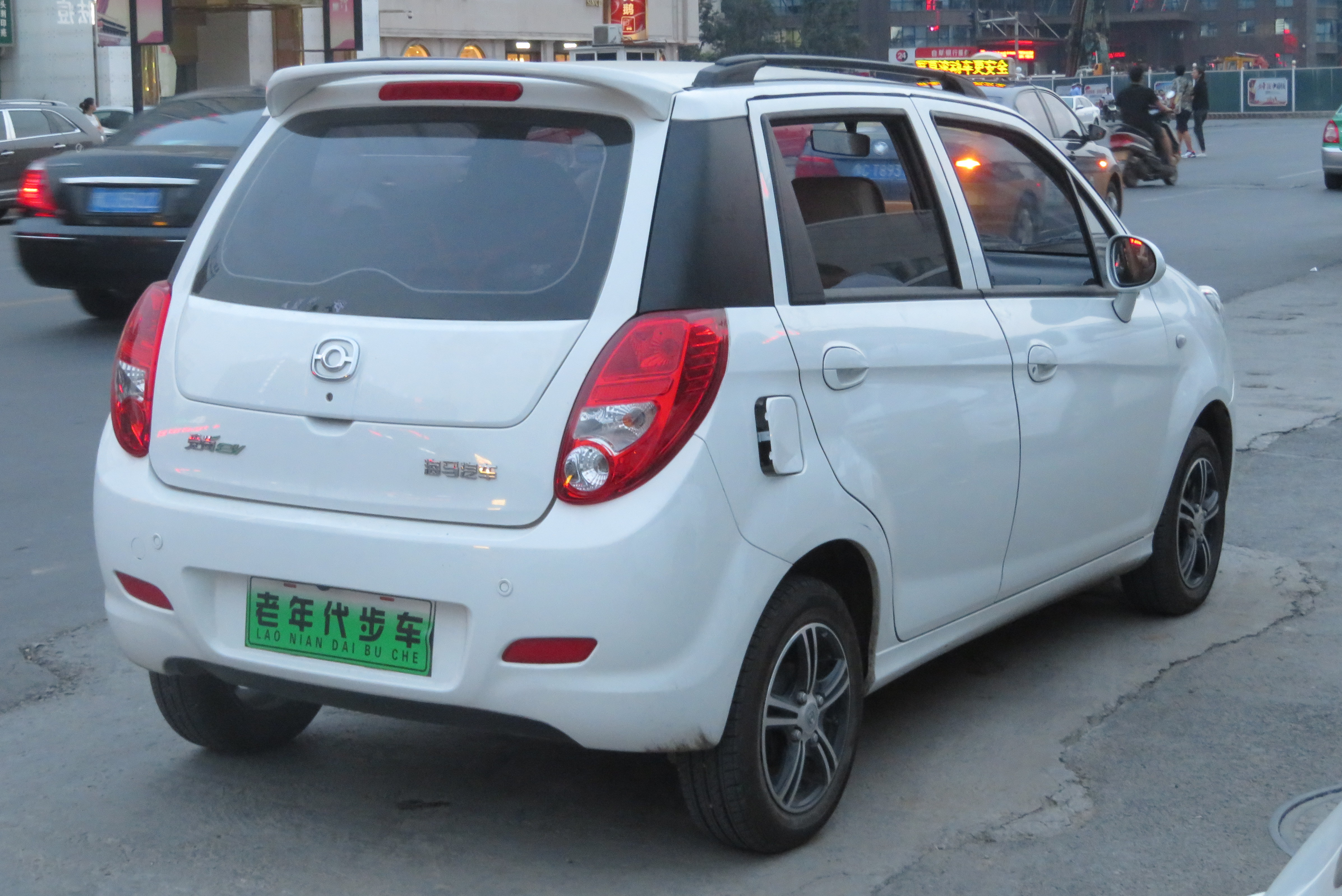 Photographed in Luoyang, Henan province, China